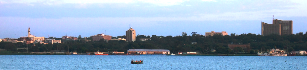 Panorama of Kisumu from Lake Victoria Kiswahili: Panorama ya Kisumu ambayo inaonekana kutoka Ziwa la Victoria